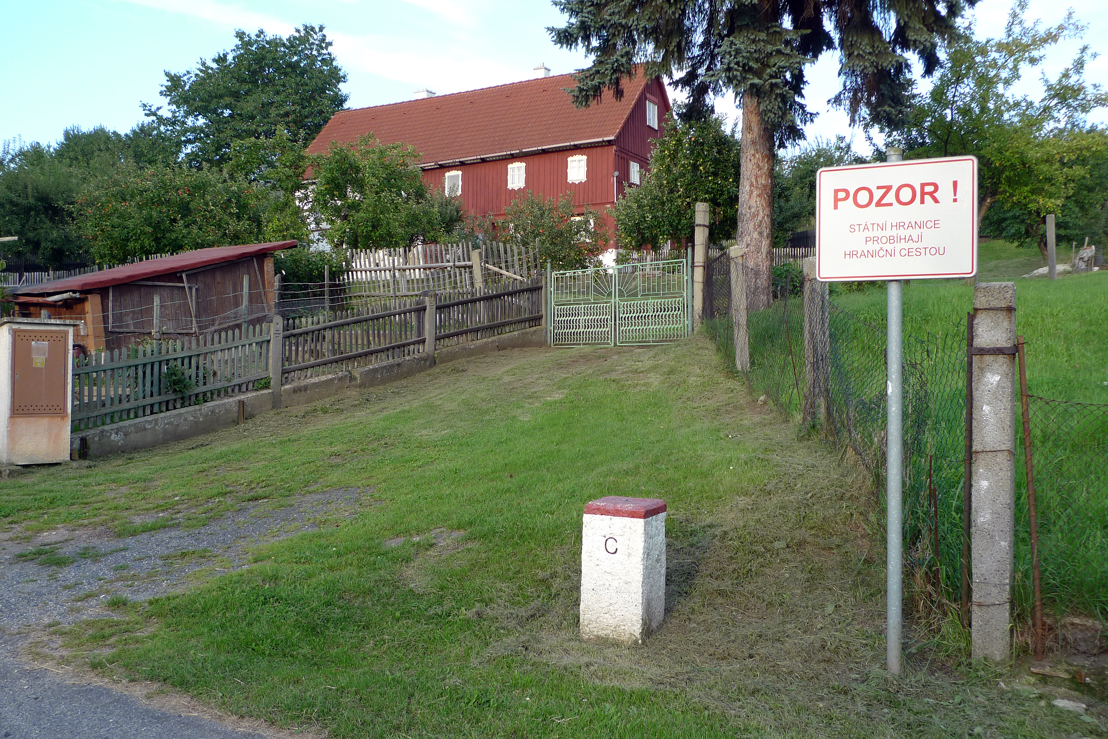 Oldřichov na Hranicích in the Czech Republic